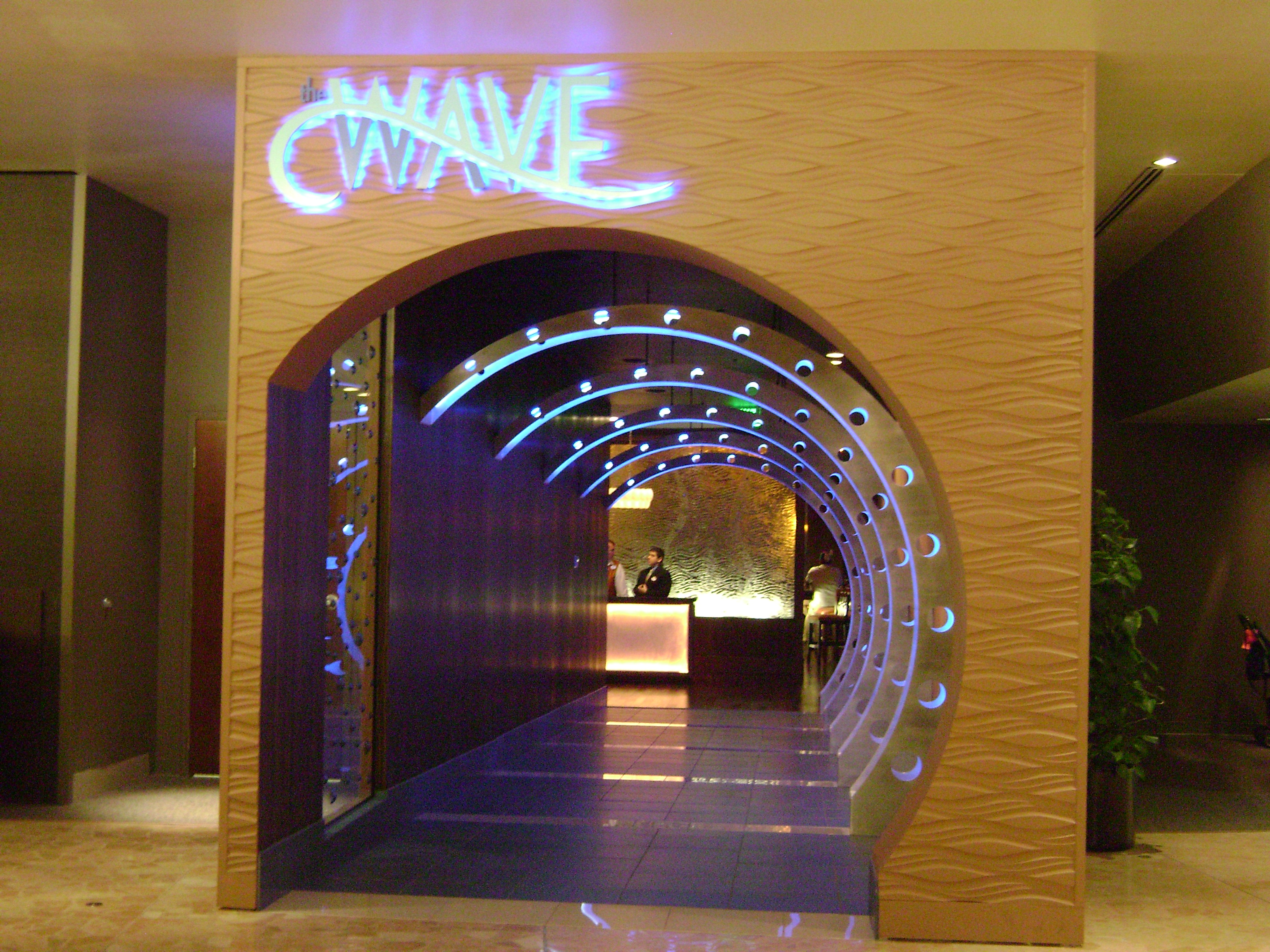 The Wave Restaurant